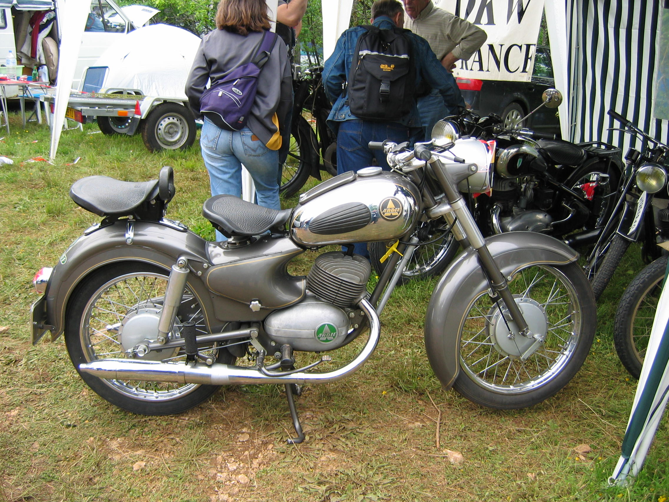 German Ardie Motorcycle Photo : Gérard Delafond